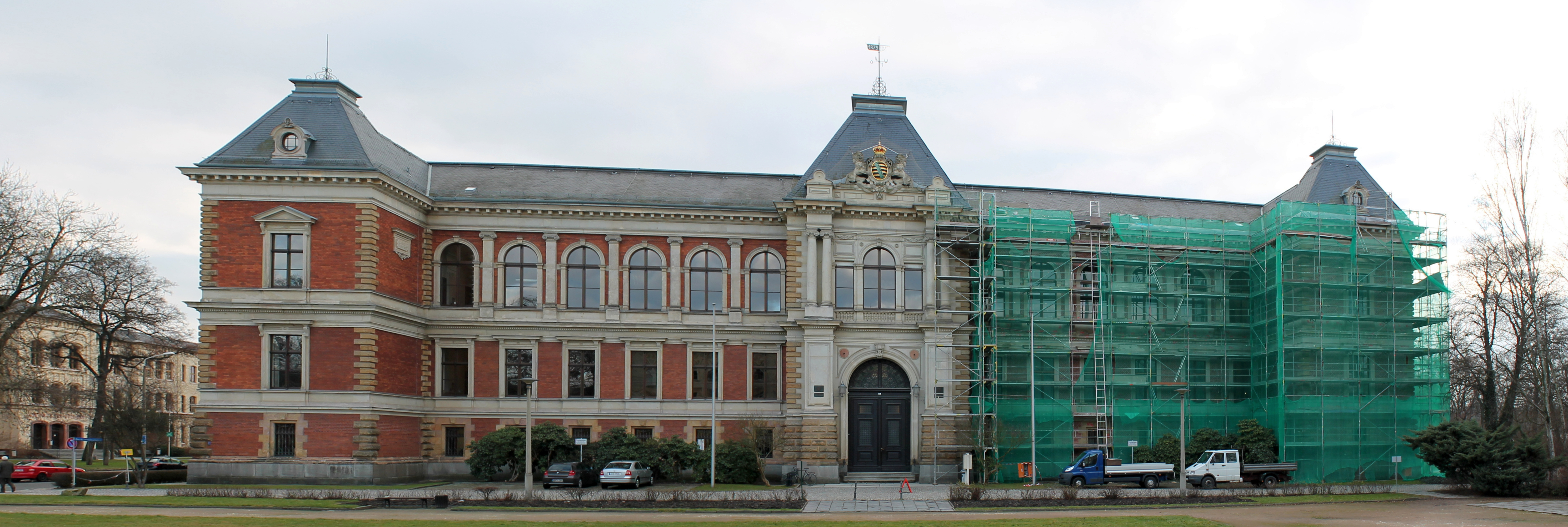 Courthouse in Zwickau, Saxony, Germany.